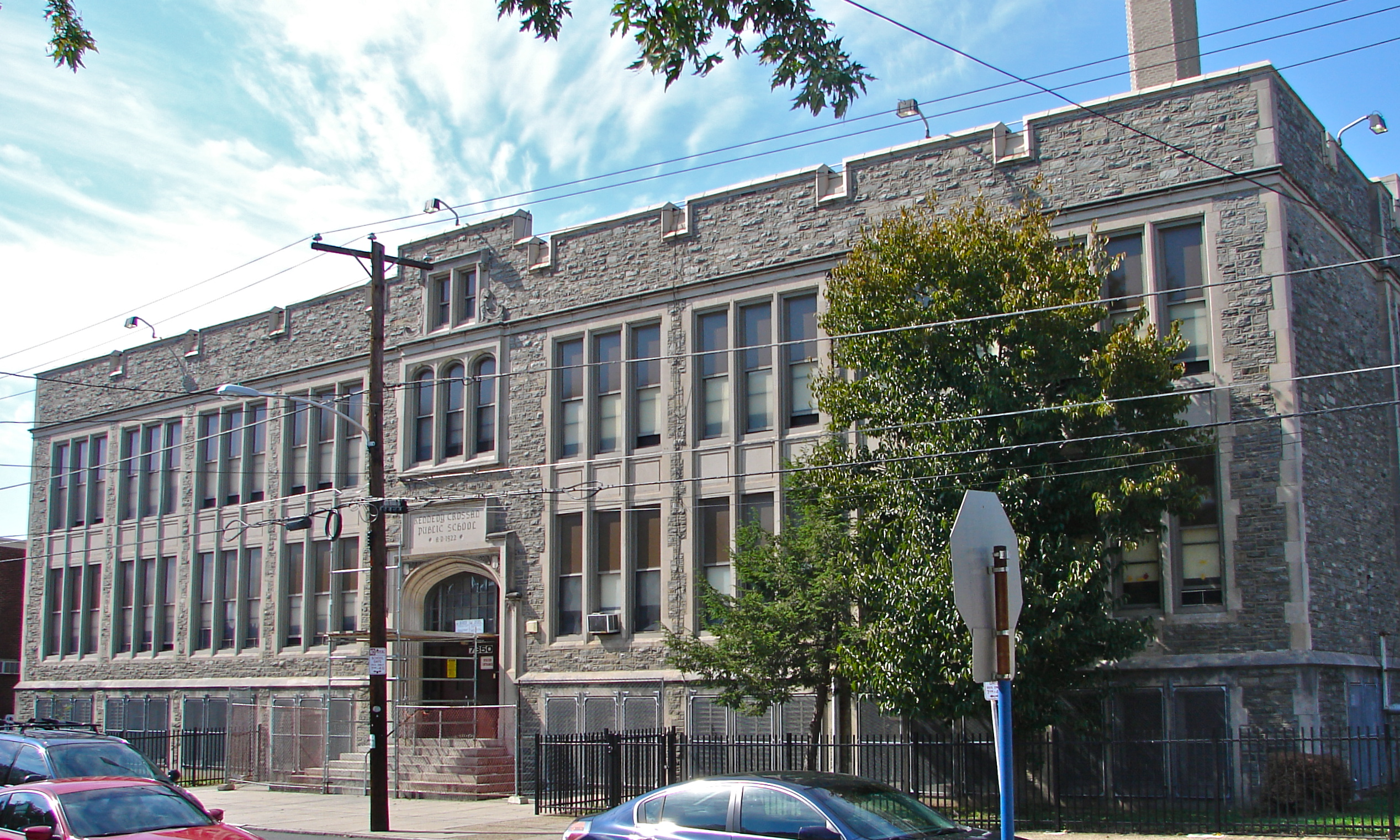 Kennedy Crossan School in Philadelphia, on the NRHP since November 18, 1988. At 7341 Palmetto Street in the Burholme neighborhood of NE Philly.